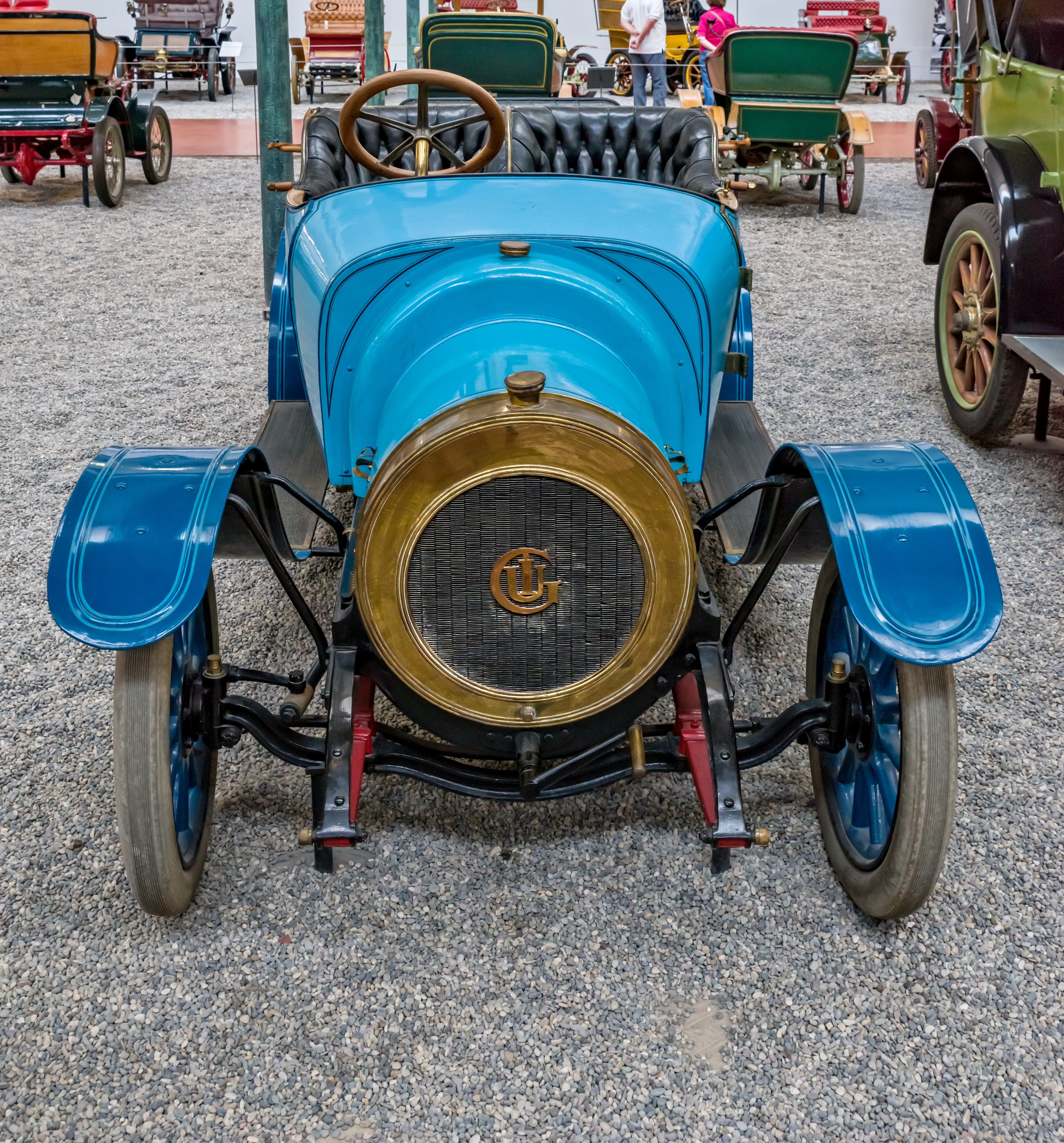 pictures from the Cité de l’Automobile – Musée National – Collection Schlump in Mulhouse, France ptictures from the 10. may 2018